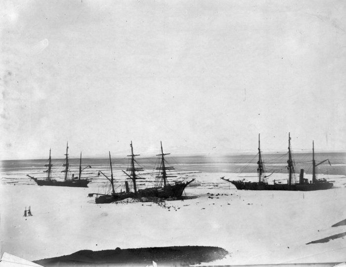 Ship Discovery, and the two relief ships, Morning and Terra Nova, in Antarctica during the British National Antarctic Expedition (a.k.a. Discovery-Expedition)